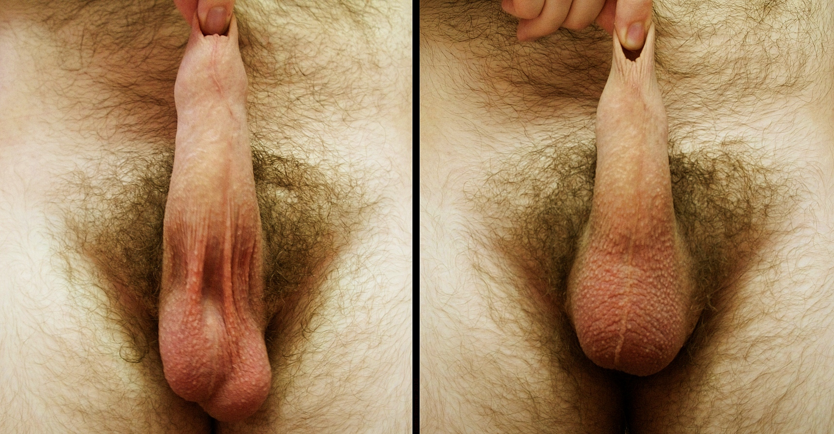 Human scrotum as it reacts to temperature. Warm at left; cold at right